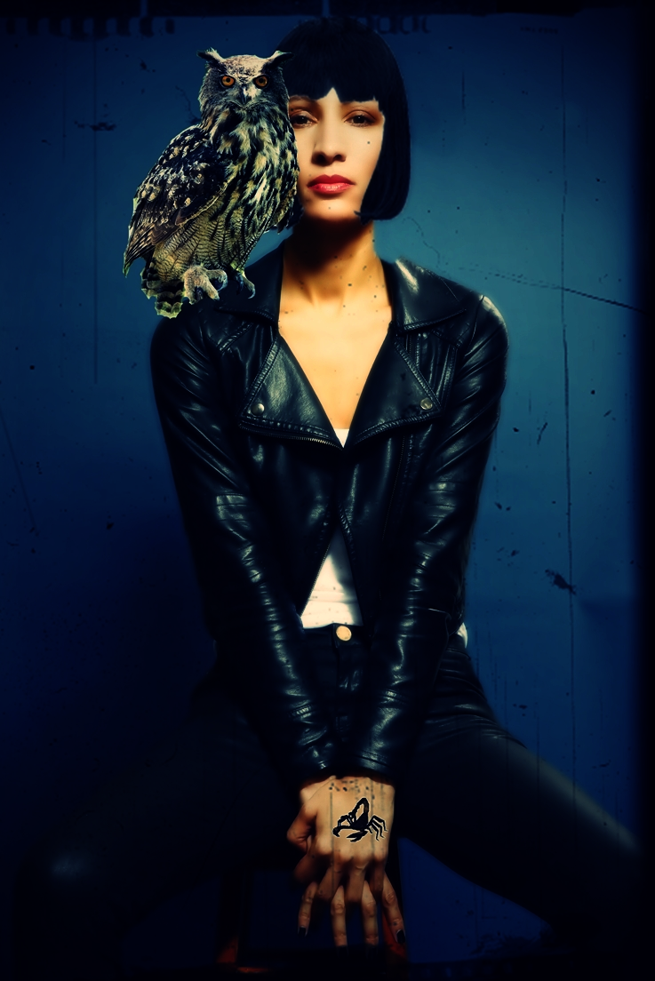 MC Opi (Janette Oparabea Nelson), Australian hip hop artist.